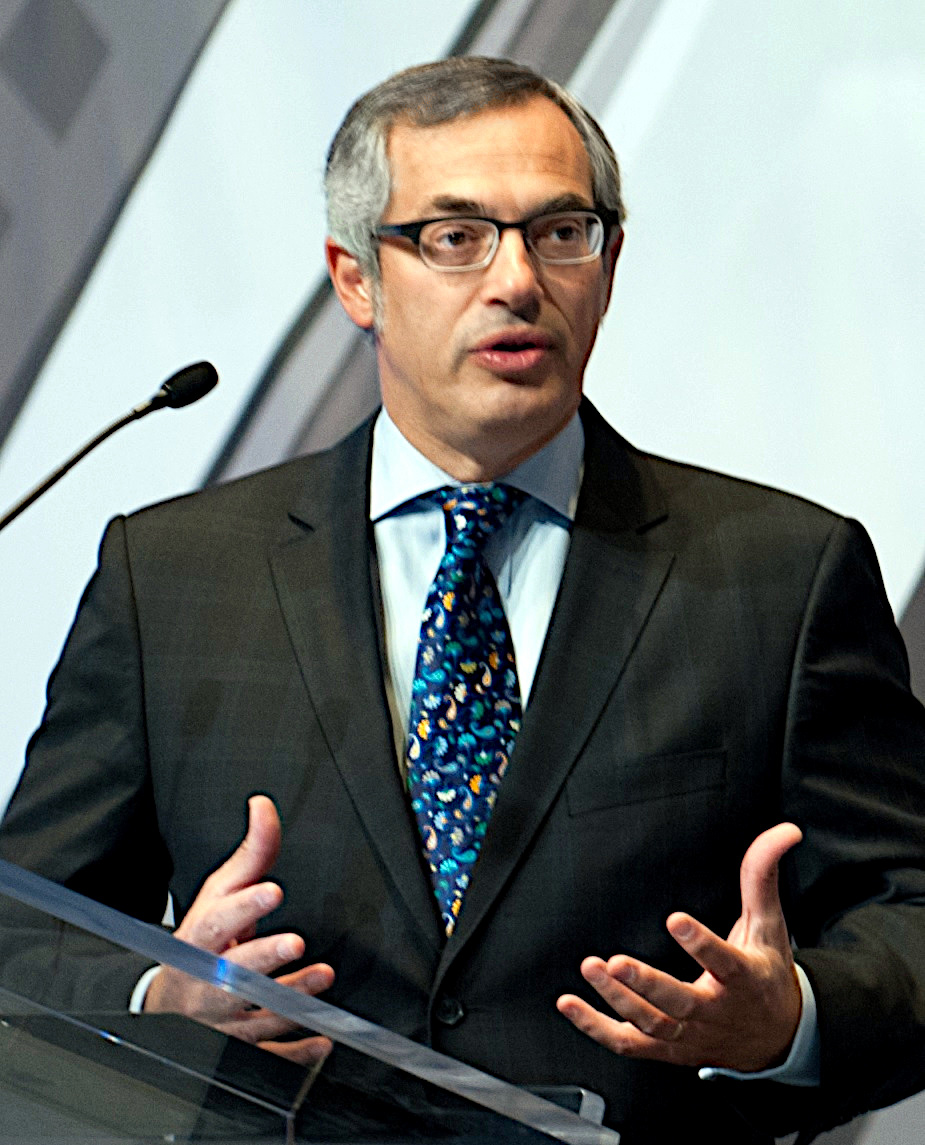 Honourable Tony Clement, President of the Treasury Board of Canada, addressing ICANN 45.